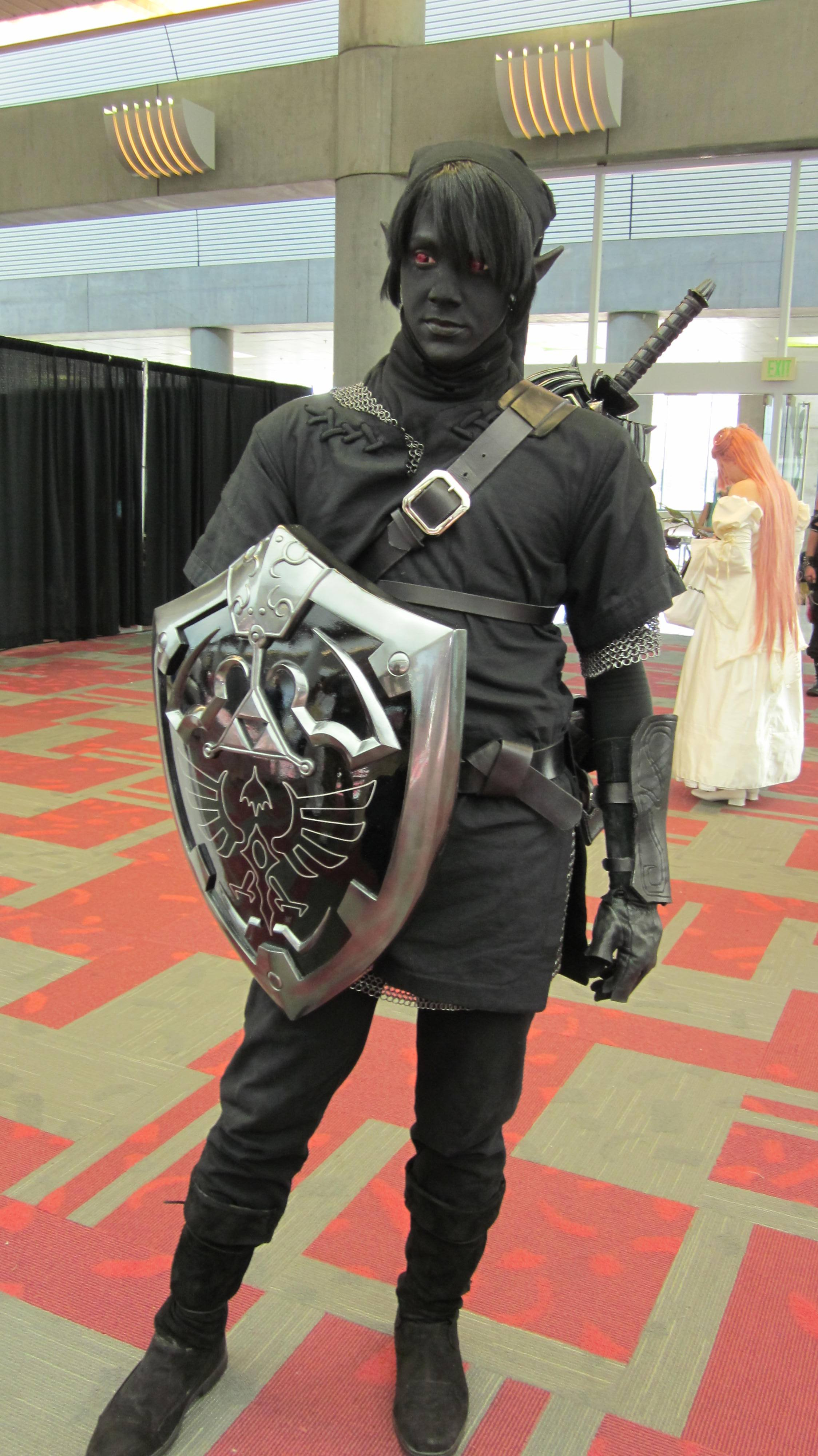 A cosplayer portraying Dark Link from The Legend of Zelda at FanimeCon 2010 in San Jose, California.